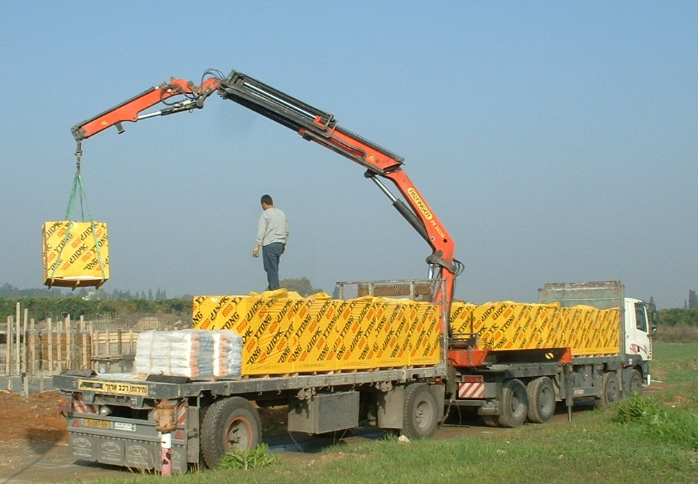 Hydraulic truck crane. Photographed by myself on Dec. 9, 2005, with Fuji FinePix 2650 camera.